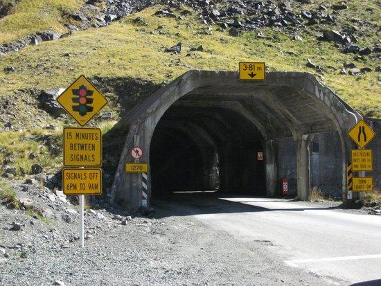 Homer Tunnel, Fiordland, New Zealand. Author: Mike Duxbury